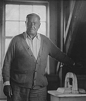 Title Portrait photograph of Childe Hassam Contributor Names Genthe, Arnold, 1869-1942, photographer Created / Published between 1911 and 1942; from a negative taken between 1911 and 1936. Subject Headings - Hassam, Childe,--1859-1935. Format Headings Lantern slides. Portrait photographs. Notes - Title devised. - Purchase; Genthe Estate; 1942 or 1943. - ID: LC-G39-8043-014; between 1911 and 1935 Medium 1 slide : lantern ; 4 x 5 in. or smaller. Call Number/Physical Location LC-G4085- 0387 [P&P]